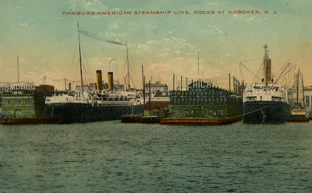 A view from the water of the Hamburg-American Lines Piers at Hoboken, NJ.